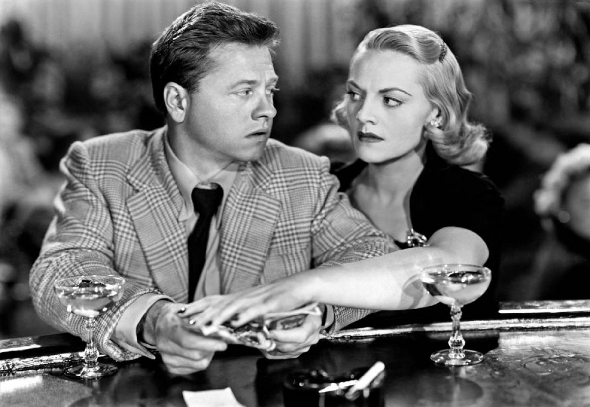 Mickey Rooney and Jeanne Cagney in the American film Quicksand (1950) - publicity still